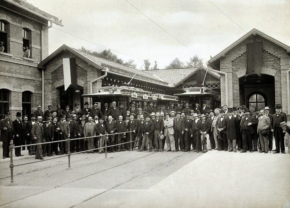 Pisárky, Brno, Czech Republic